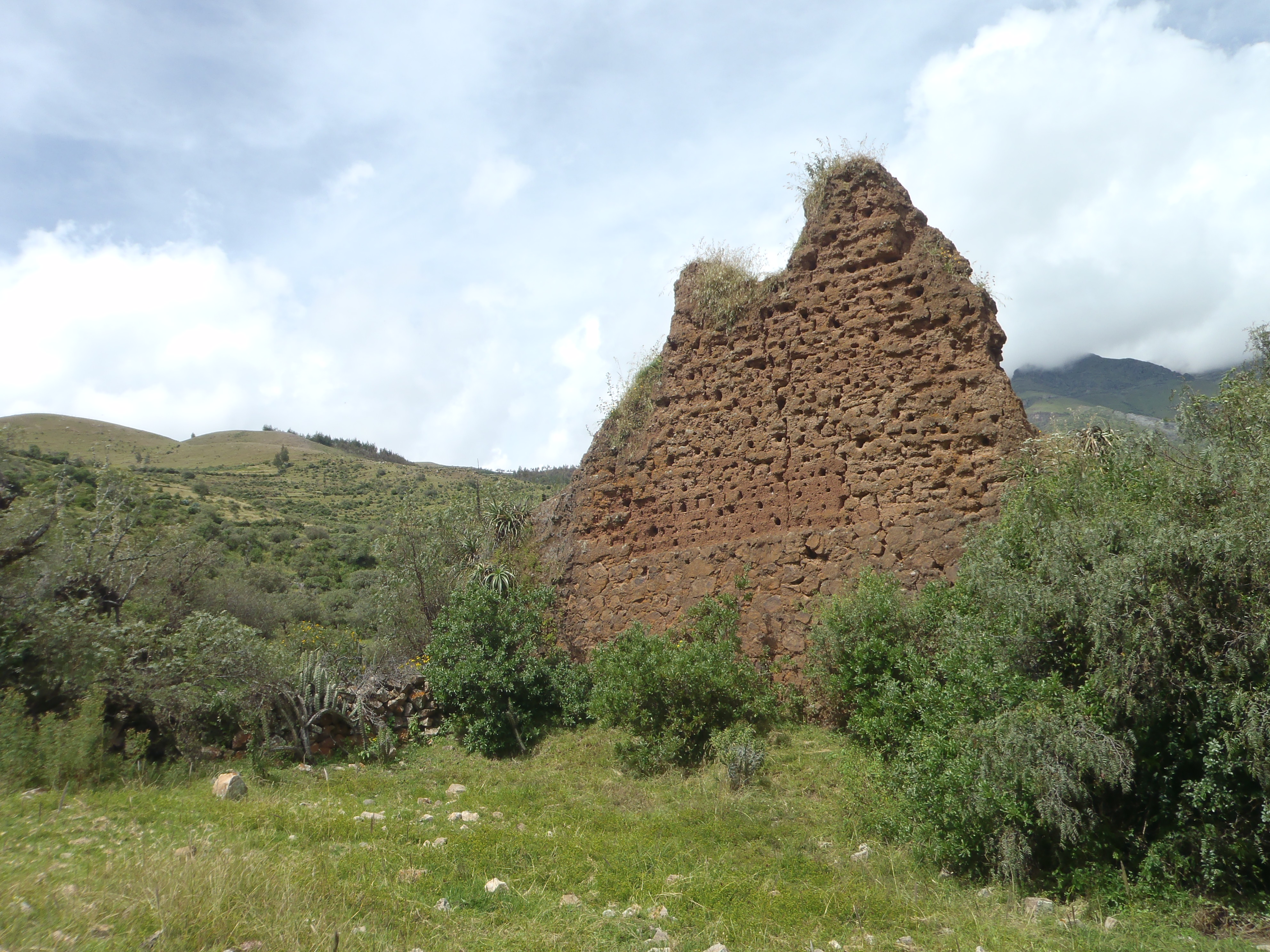 Yanaca is a pre-inca ruins group situated in Peru, Apurimac region, Yanaca district. Chacha-Callas is one of these ancient village, situated near Parancay village, next to Yanaca village. This picture represents the first church built by the spanish in XVIth century, near Chacha-Callas.